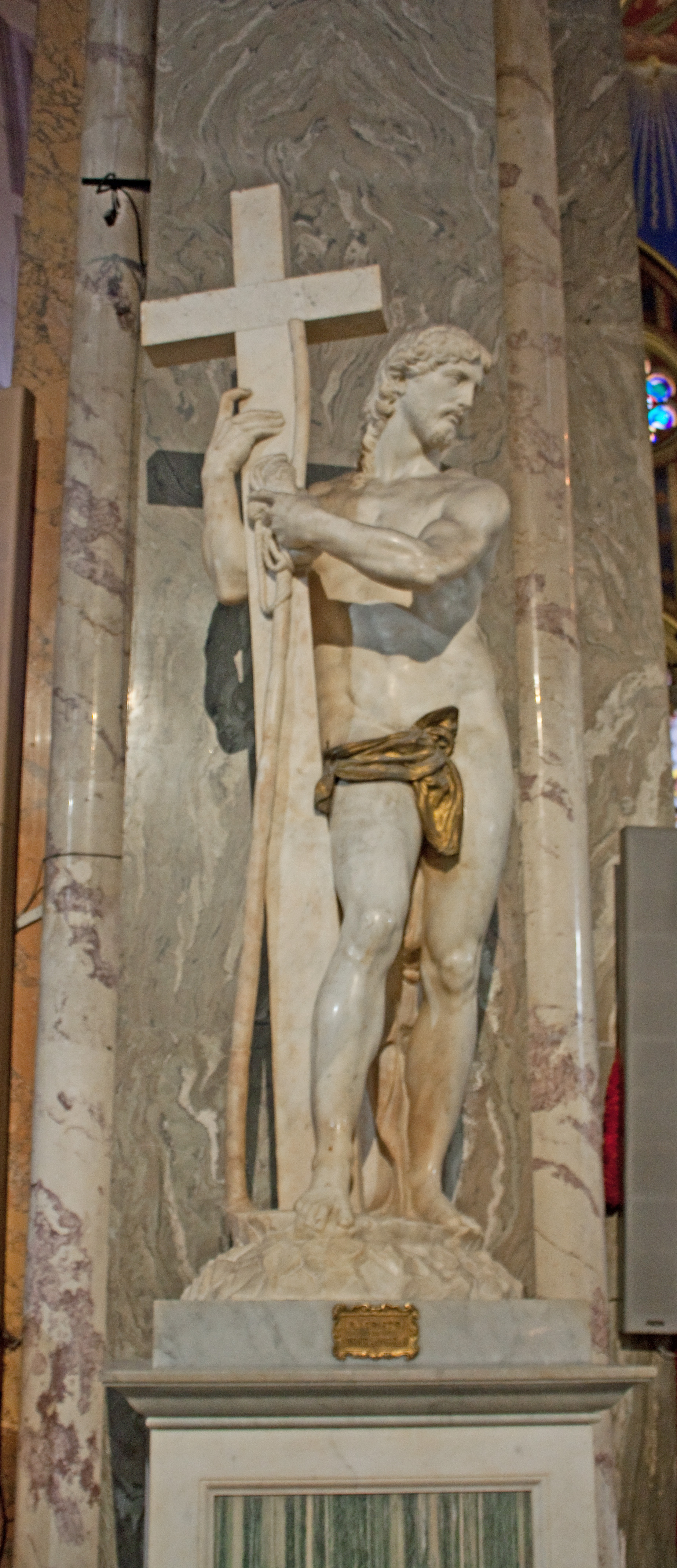 Cristo Redentore by Michelangelo in Santa Maria sopra Minerva in Rome, Italy.